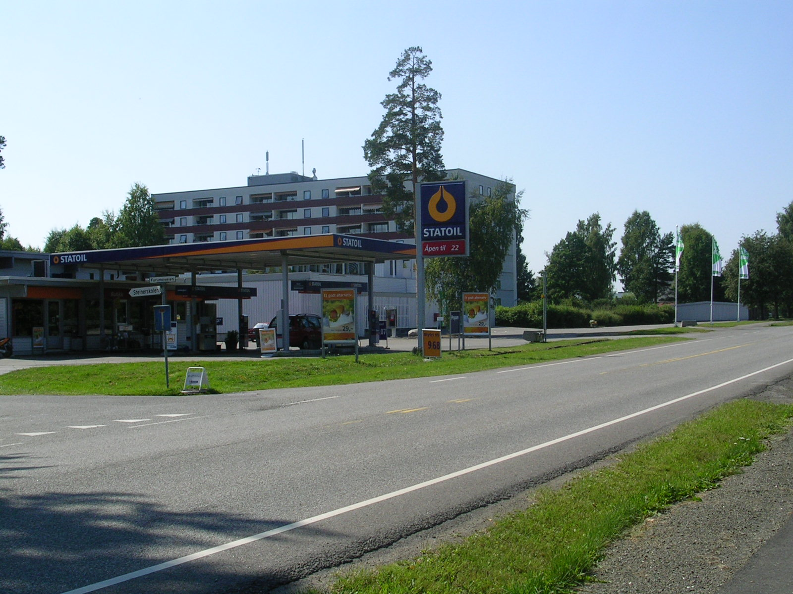 Shop and gas station in Vestskogen, Nøtterøy, Norway.